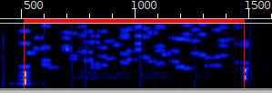 The waterfall diagram of the beginning of an acoustic olivia 32/1k transmission. The content transmitted so far is "Welcome to Wikipedia, "